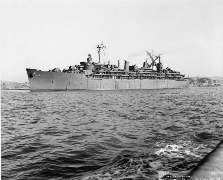 The U.S. Navy Fulton-class submarine tender USS Nereus (AS-17) underway off the Mare Island Naval Shipyard, Vallejo, California (USA), on 6 November 1945.